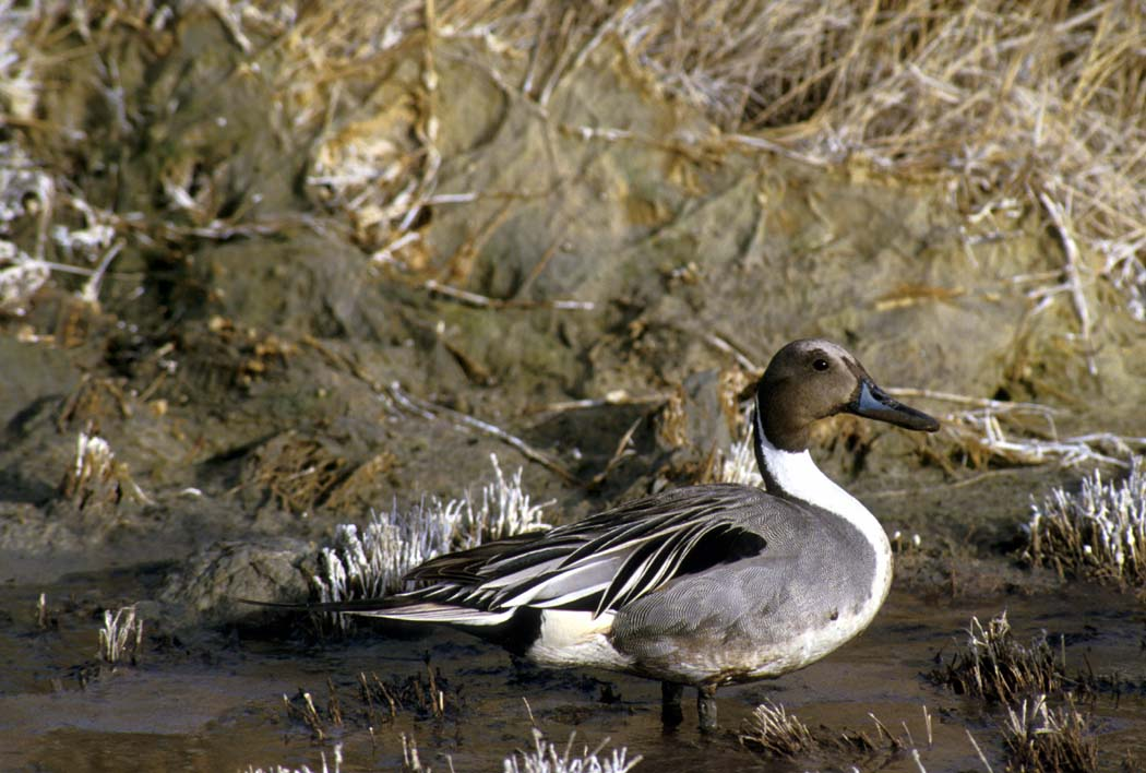 Male Northern Pintail (Anas acuta)